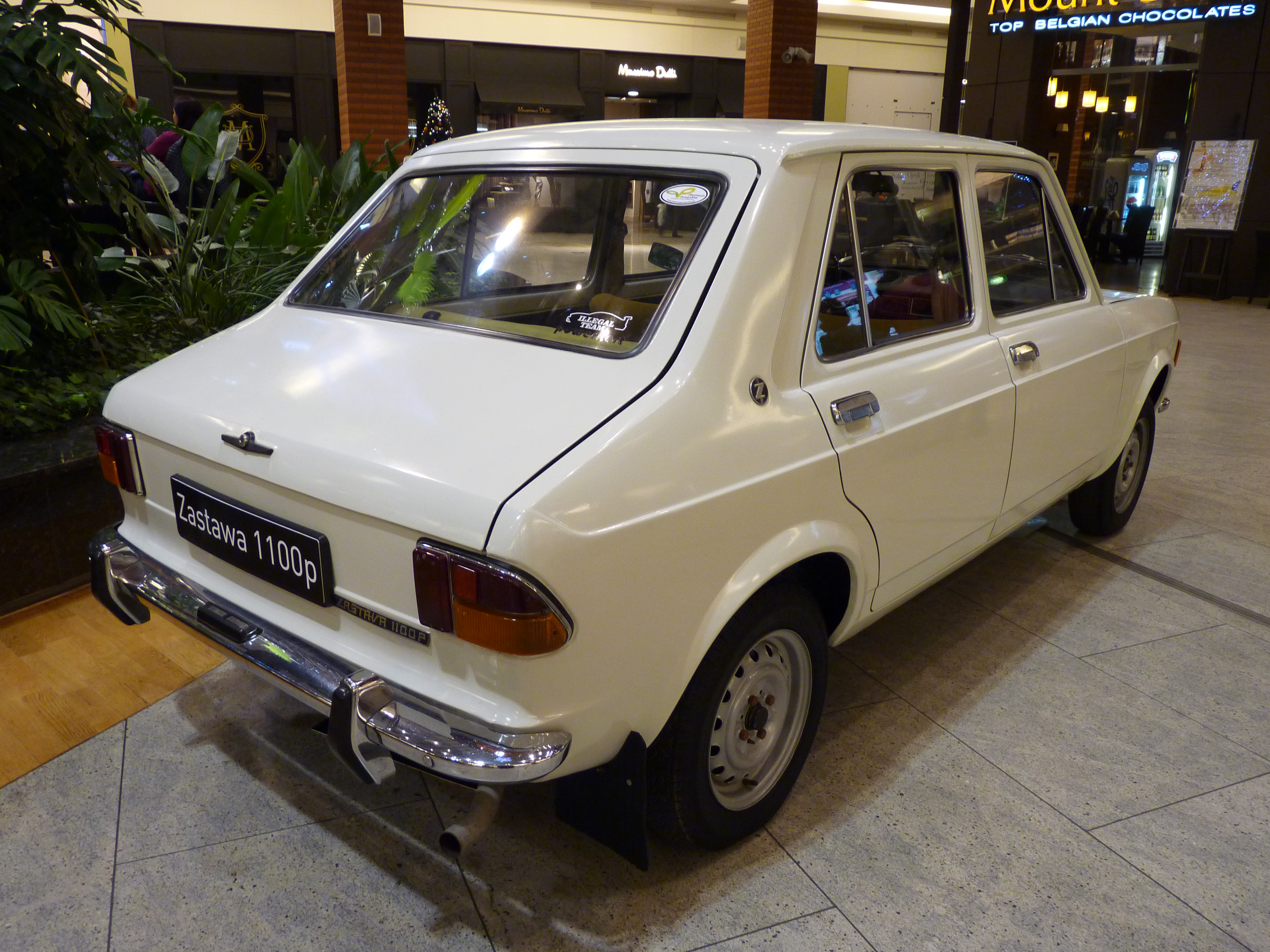 Zastava 1100p during „XXX lat motoryzacji PRL” exhibition at Bonarka City Center in Kraków.